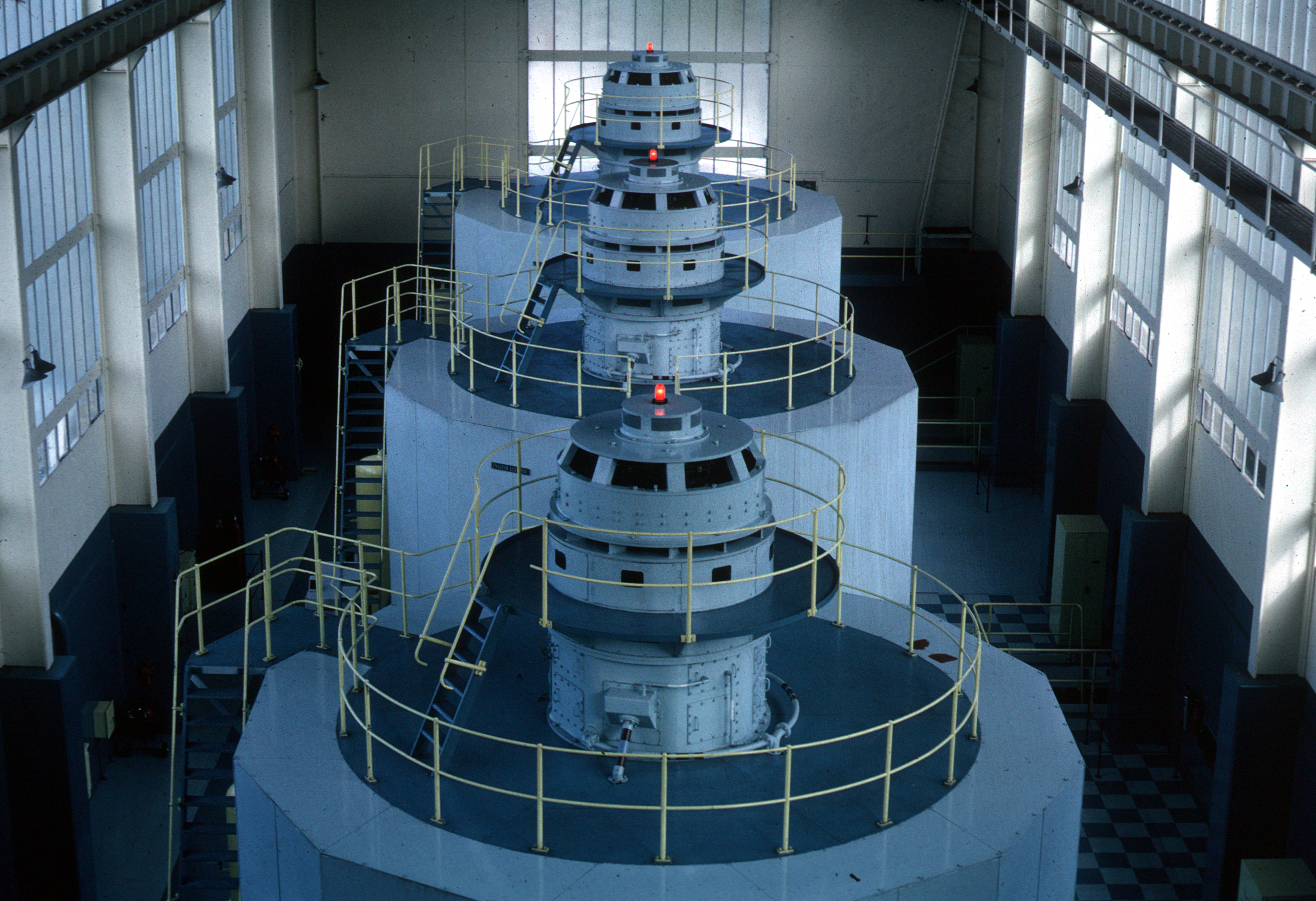 Liapotah Hydroelectric Power Station turbines, Tasmania.